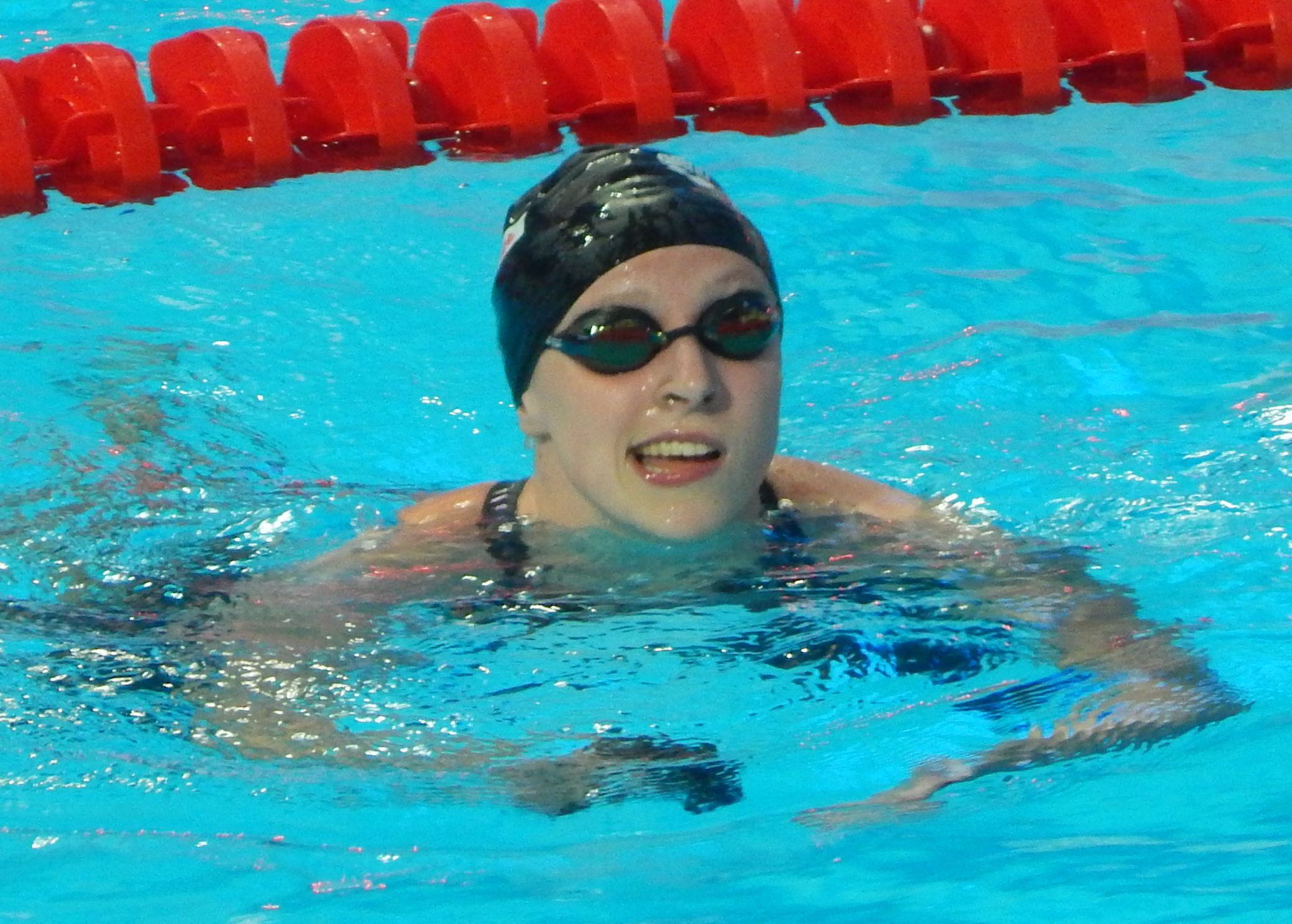 Katie Ledecky wins 400m freestyle at the 2015 Aquatics WC in Kazan